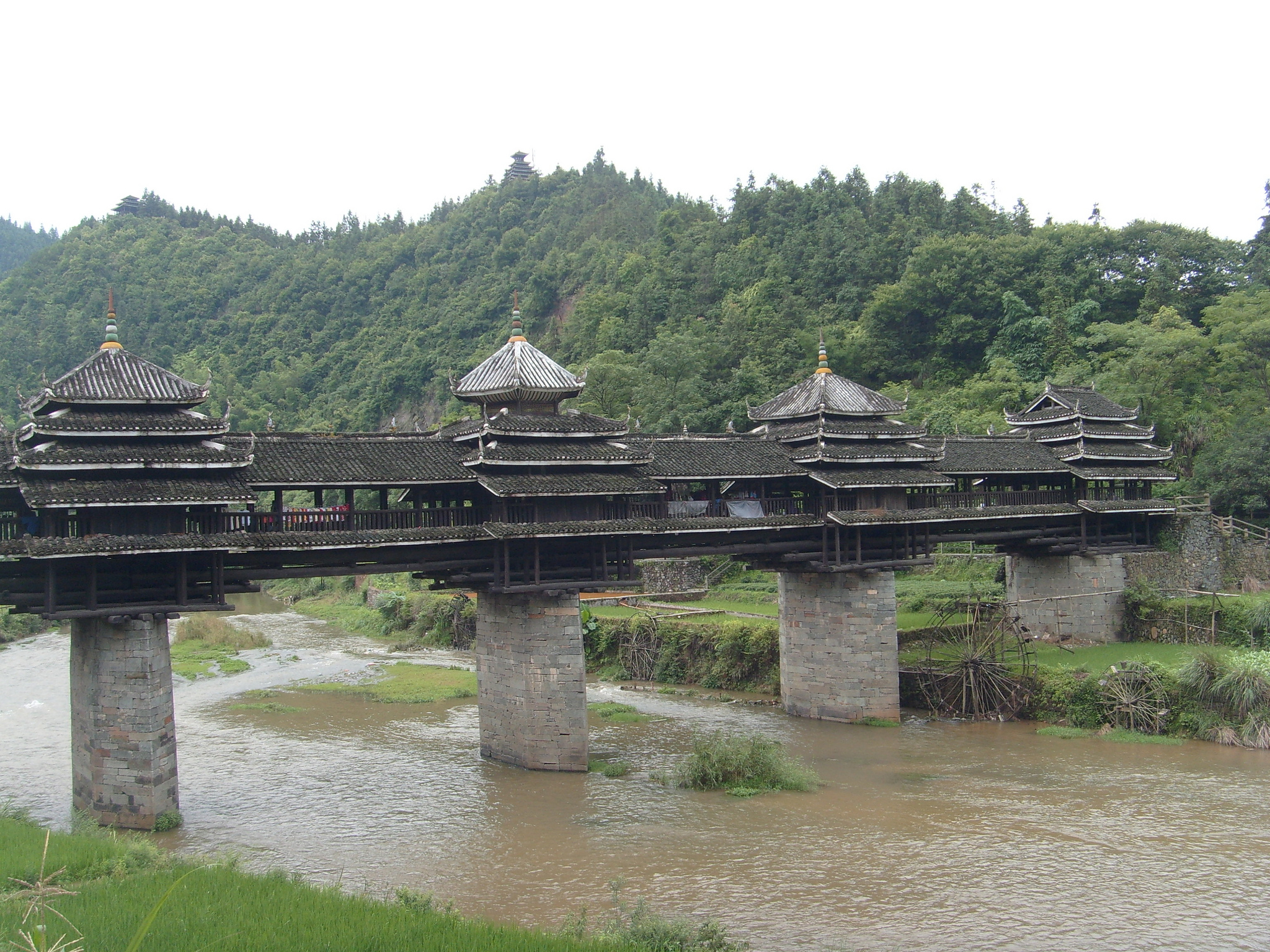 The Chengyang Bridge is the world's largest wind and rain bridge, spanning 220-feet. - Mitchell Blatt